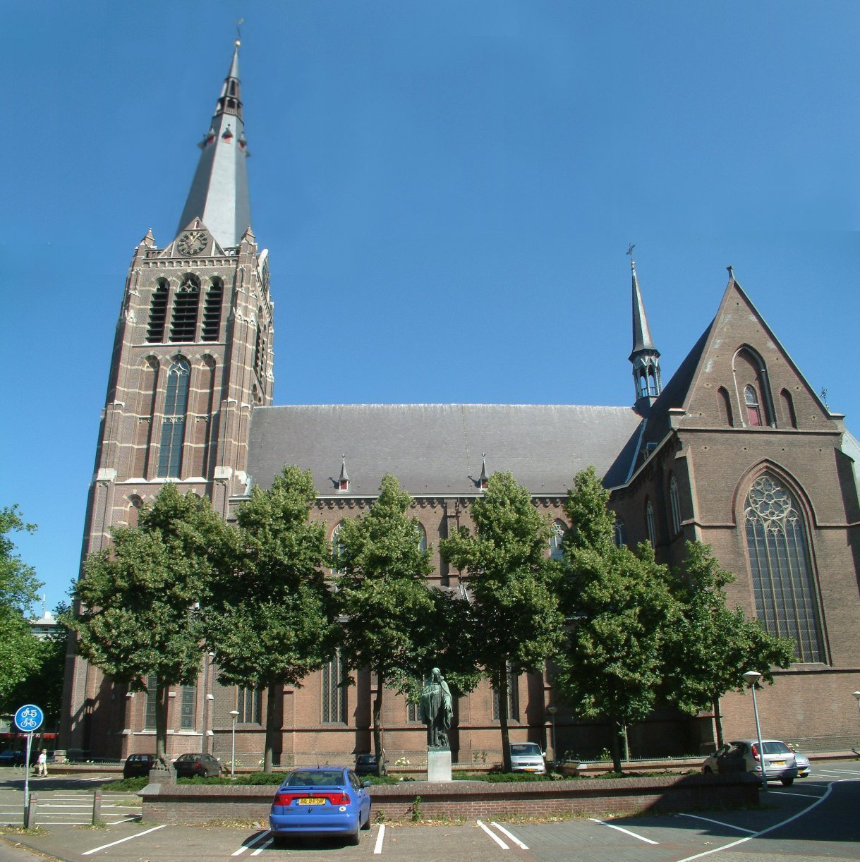 St George's Church in Eindhoven